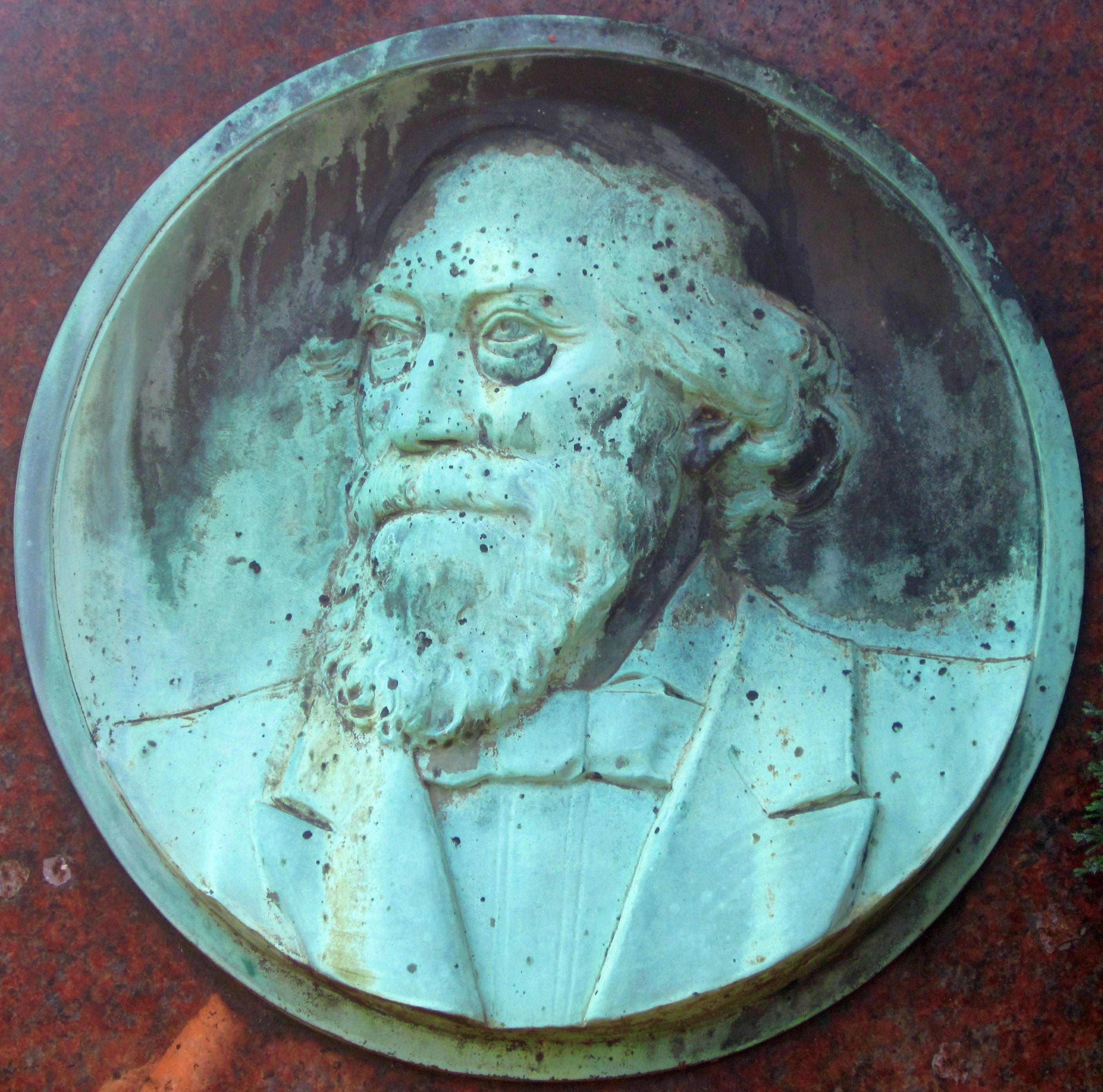 Portrait medaillon of the botanist Christian August Friedrich Garcke (1819-1904) on his gravestone at Cemetery III of the Jerusalems- and Neue Kirche at Mehringdamm in Berlin-Kreuzberg. The medaillon was created by the sculptress Lilli Wislicenus-Finzelberg.